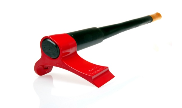 Vipukirves axe